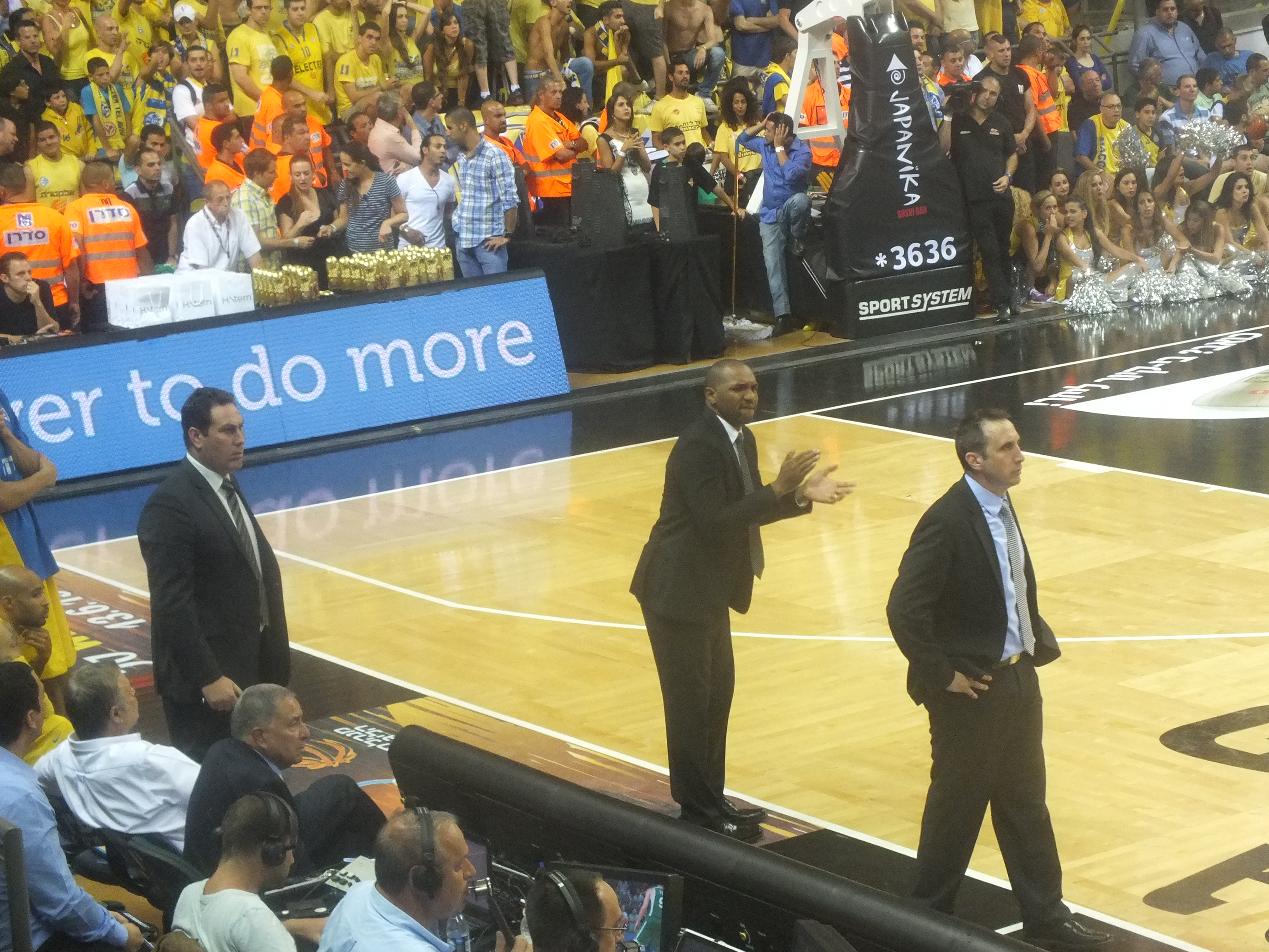 The sinking champion’s senior staff trying to save a doomed game.